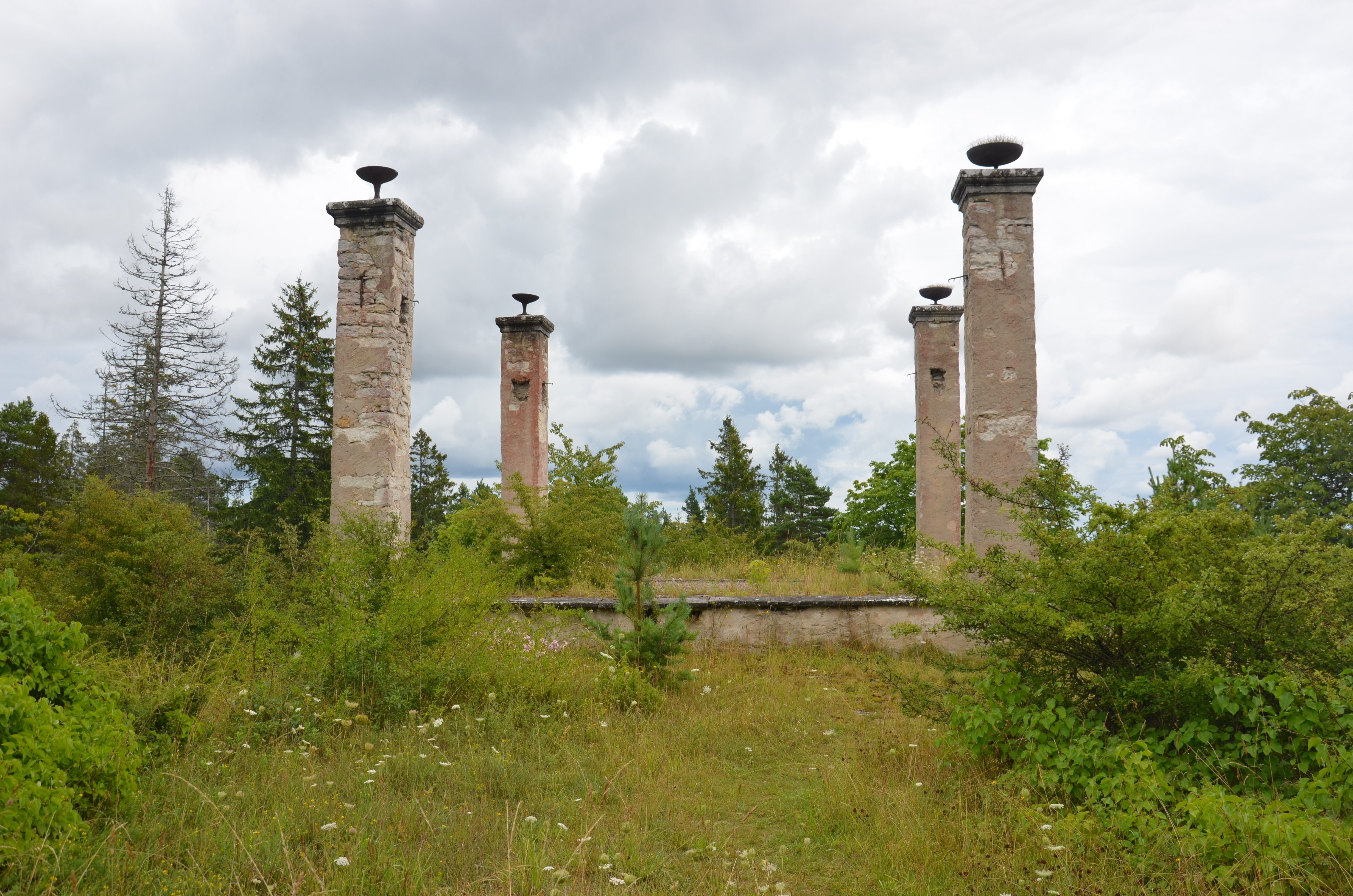 Jacobsberg, Follingbo, Gotland, Sweden